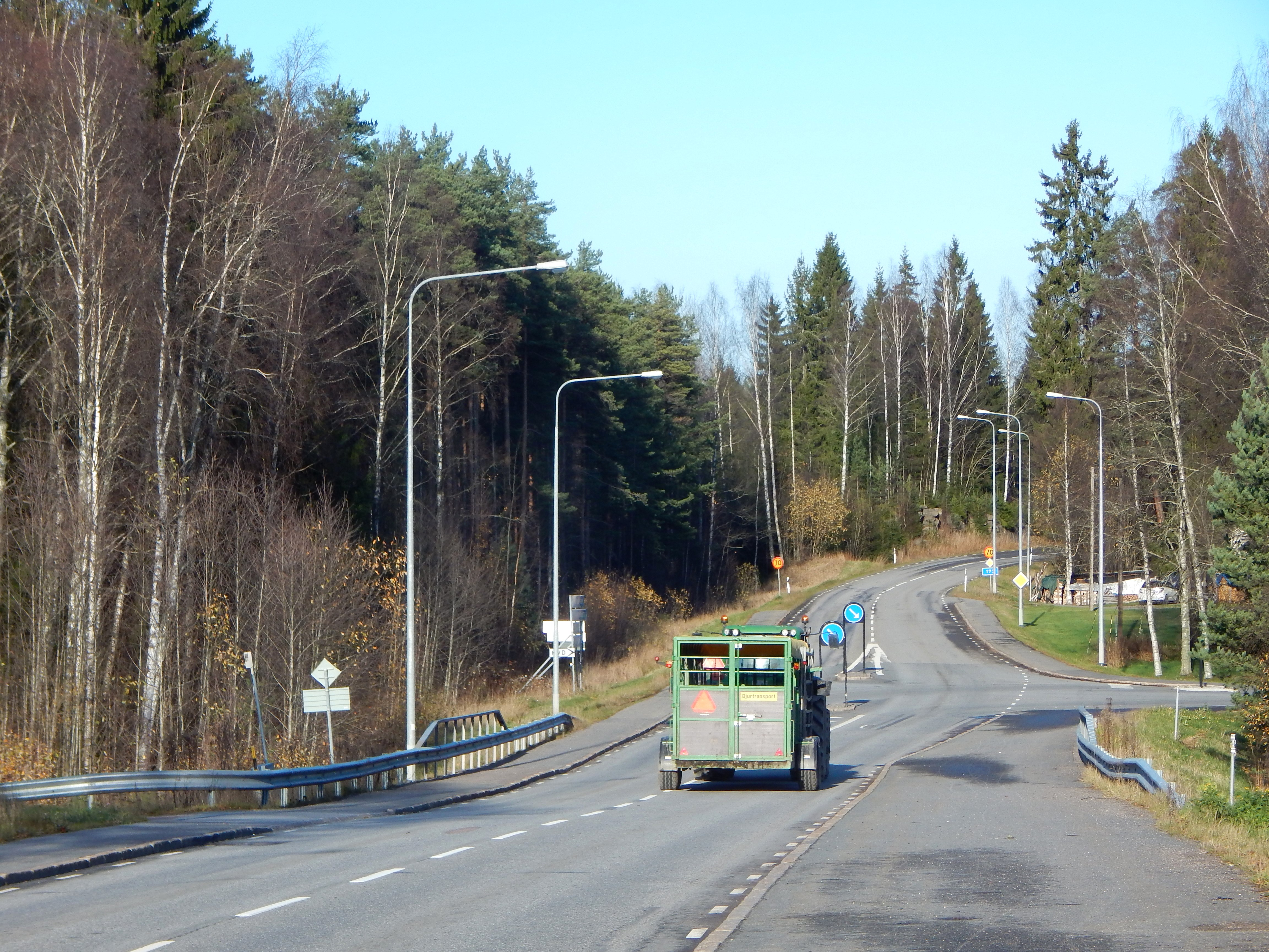 Swedish primary county road 177 at Åmotfors